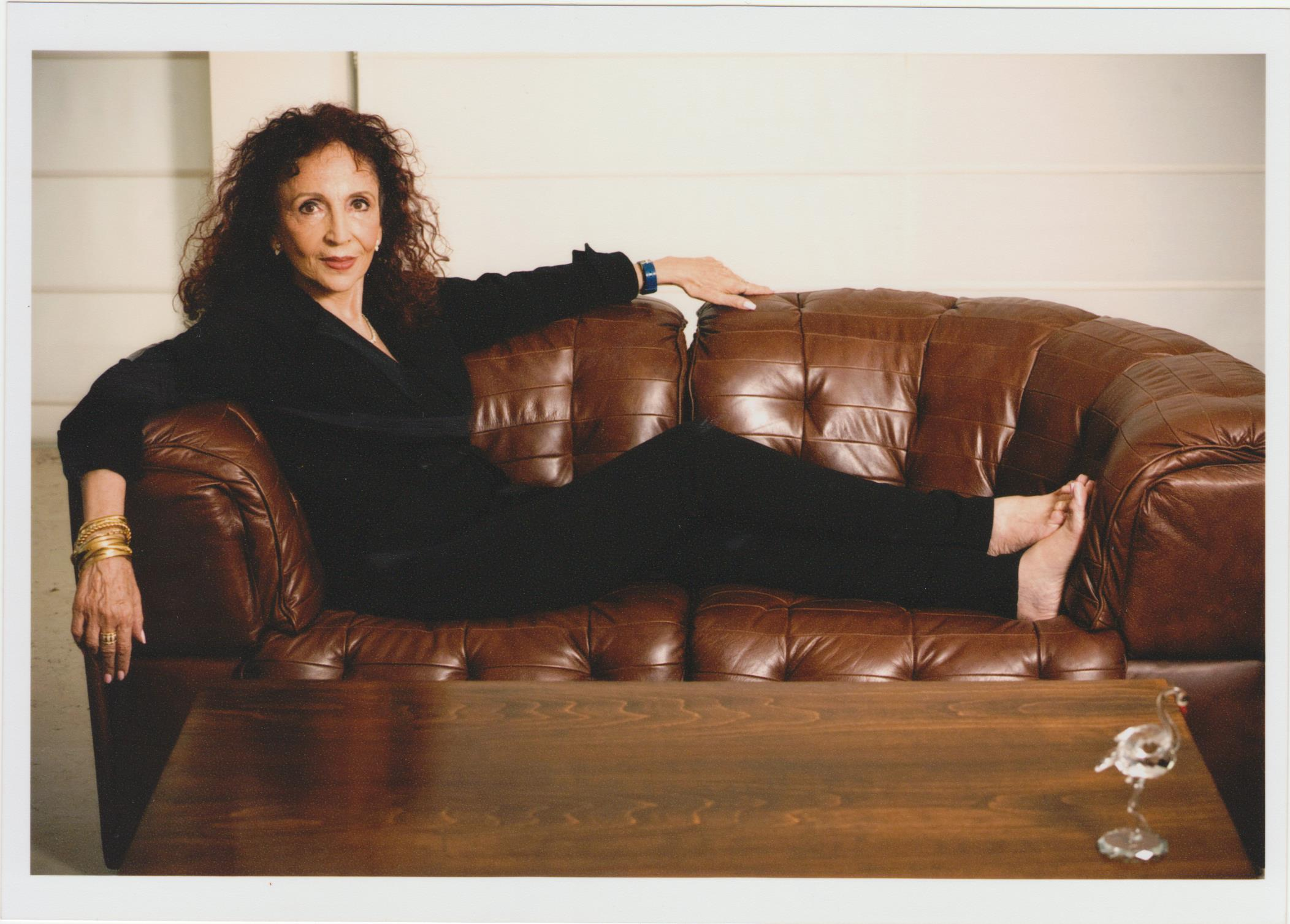 ברוריה בצילומים לכתבה